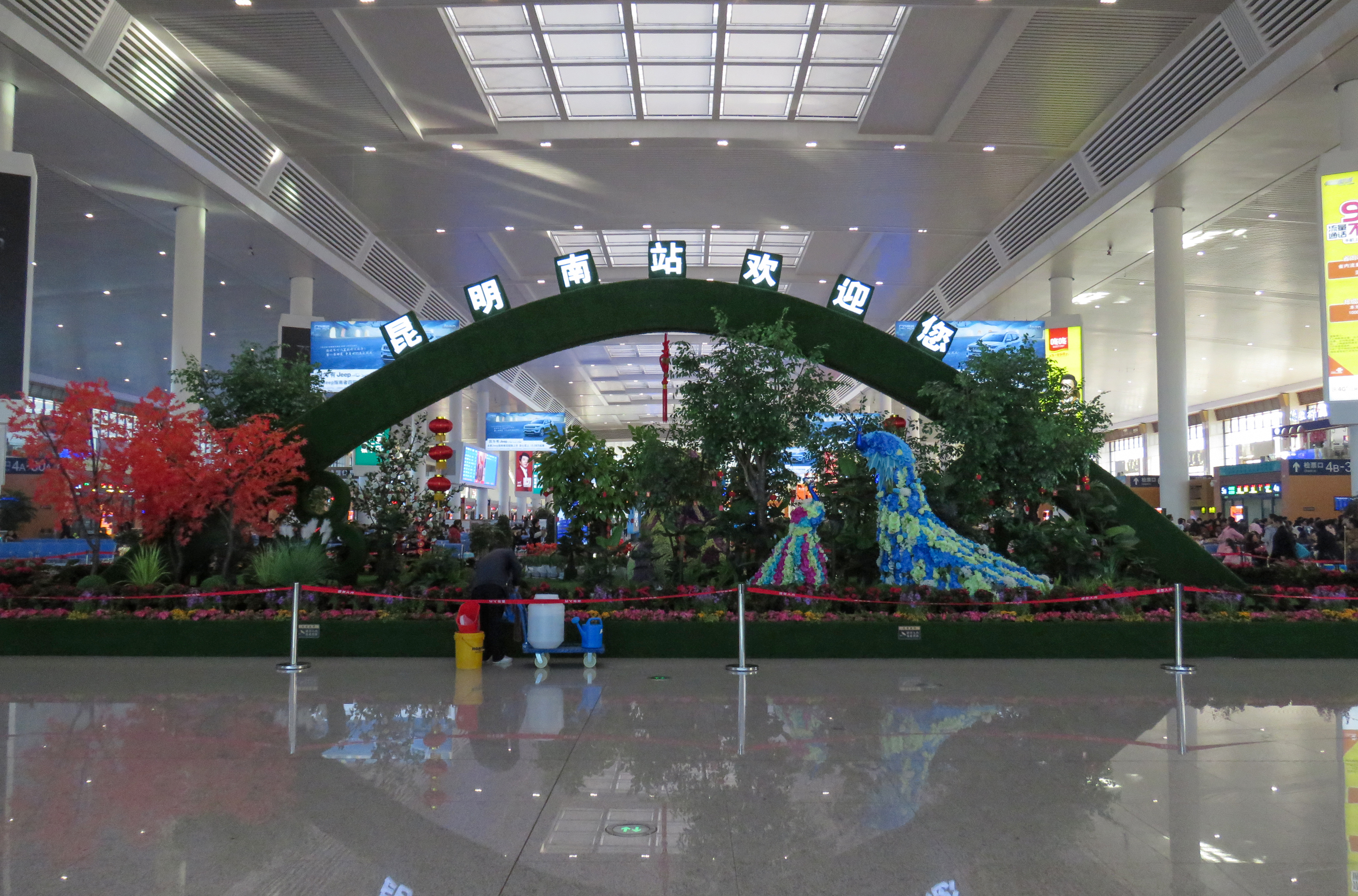 Peacocks symbolize Yunnan.